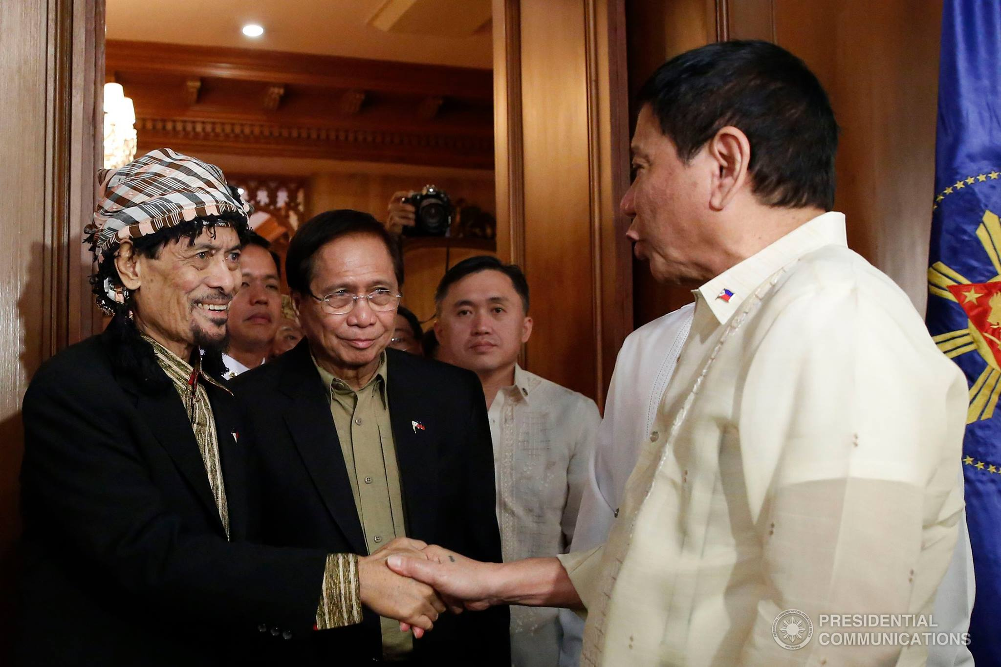 President Rodrigo Duterte welcomes Moro National Liberation Front (MNLF) Chair Nur Misuari in Malacañan on November 3 following a court order suspending the latter’s warrant of arrest.